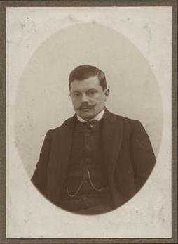 Erwin Mięsowicz